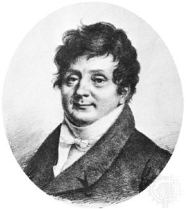 Circa 1820 drawing of French mathematician Joseph Fourier.